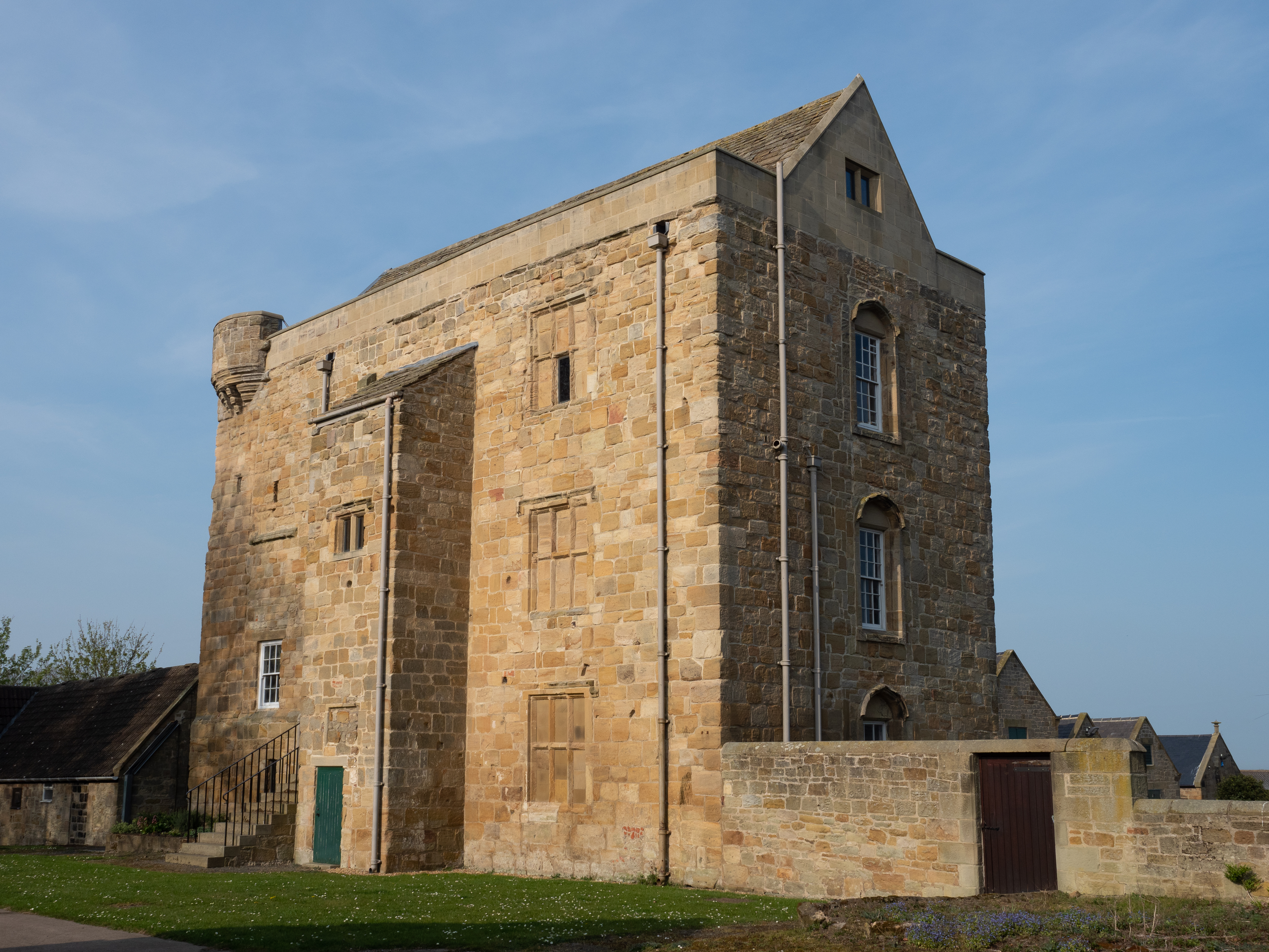 Cockle Park Tower, a Grade 1 listed 15-century tower house near Morpeth, Northumberland, England, seen from the southwest. More details will be found in the Wikipedia article and in the National Heritage List for England and other architectural sources. This photograph has been edited to remove some very obtrusive cables which ran right across the image.